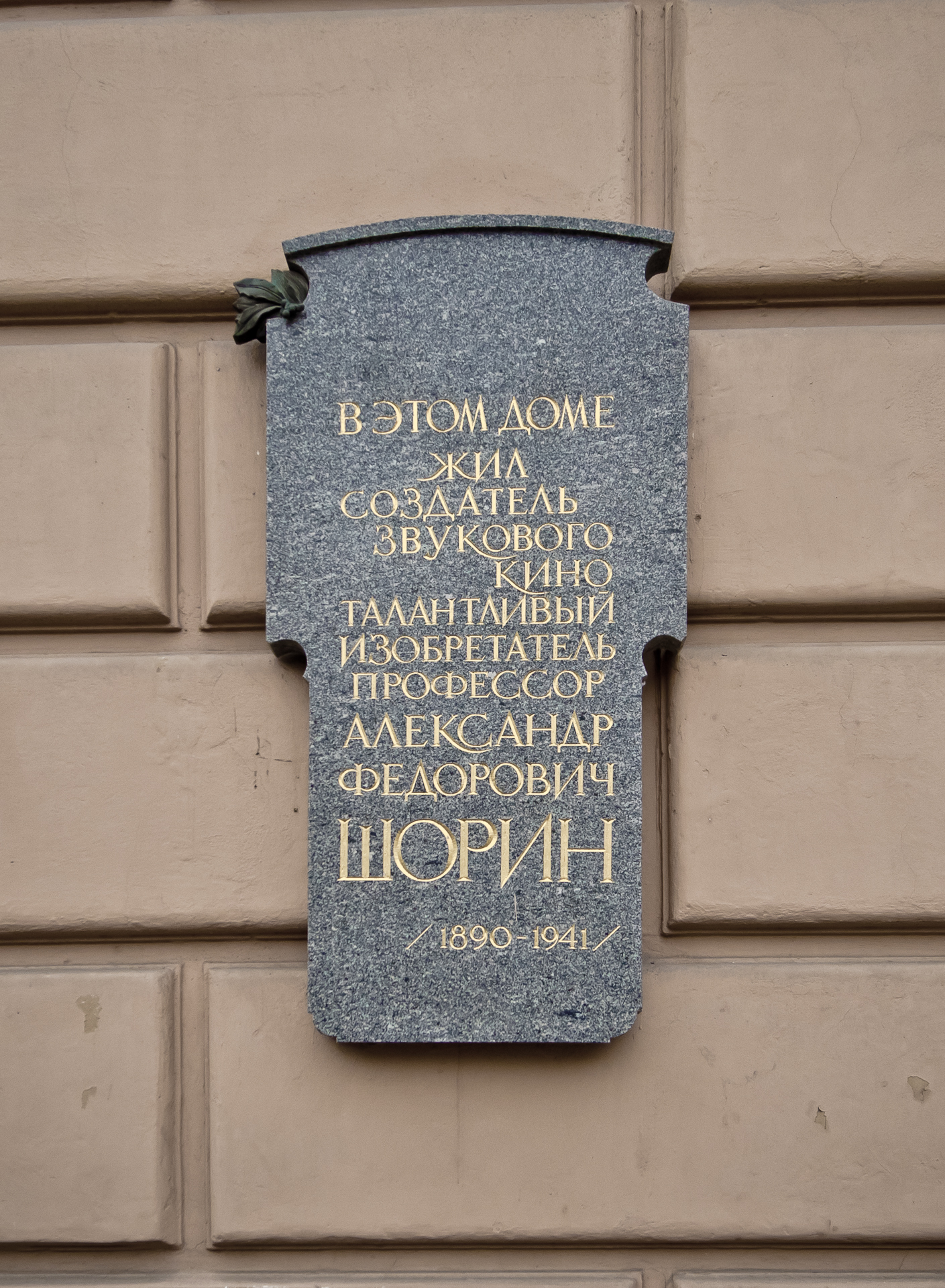 Saint Petersburg, 6, Blokhina street. Alexander Shorin's memorial board